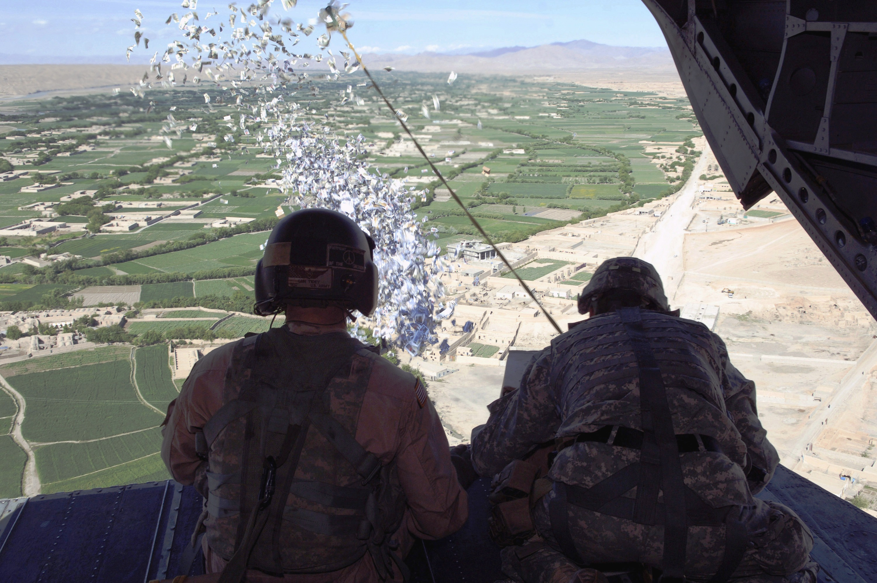 Distribution of leaflets over Helmand Province by the U.S. military, Photo courtesy: U.S. Army.